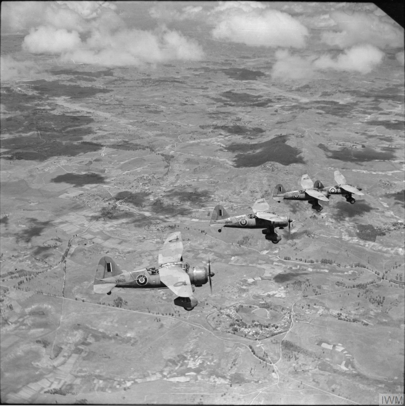 Four Royal Air Force Westland Lysander Mark IIIA of No. 1433 Flight RAF, based at Ivato, Madagascar, in flight over Madagascar.